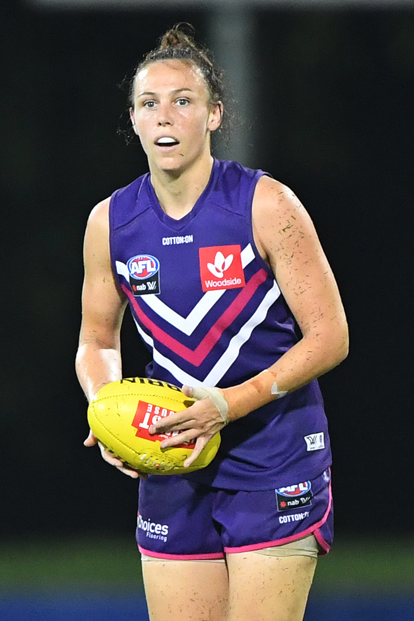 Ashlee Atkins of Fremantle during the 2019 AFL Women's practice match between the Adelaide Football Club and Fremantle Football Club at TIO Stadium on January 19, 2019 in Darwin Australia.